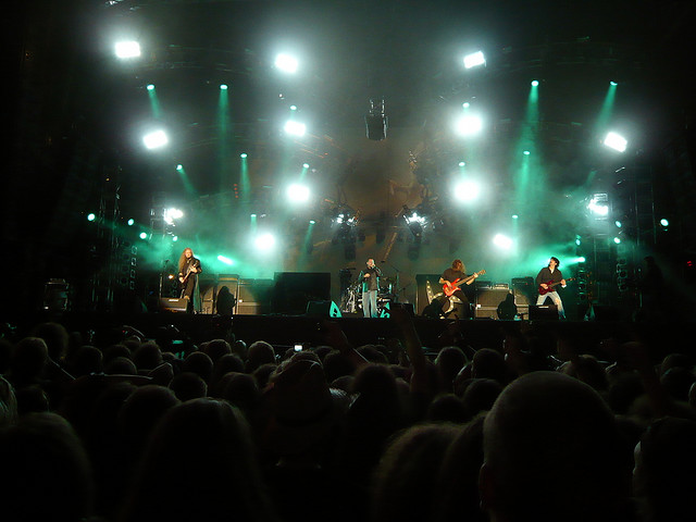 Iced Earth live at Wacken Open Air 2007.